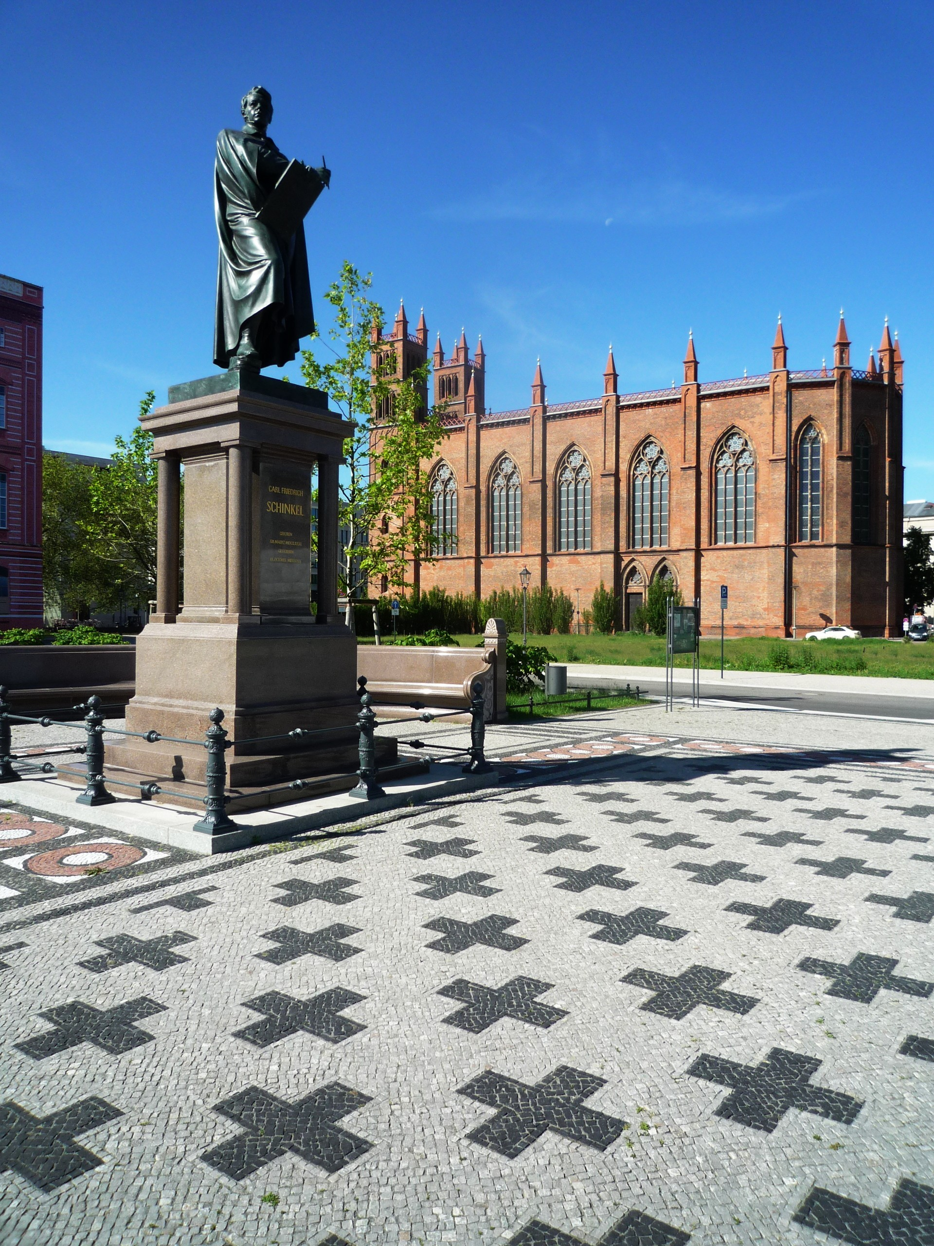 The "Schinkelplatz" in Berlin-Mitte. View to "Friedrichswerdersche Kirche" (Architect: Karl Friedrich Schinkel).